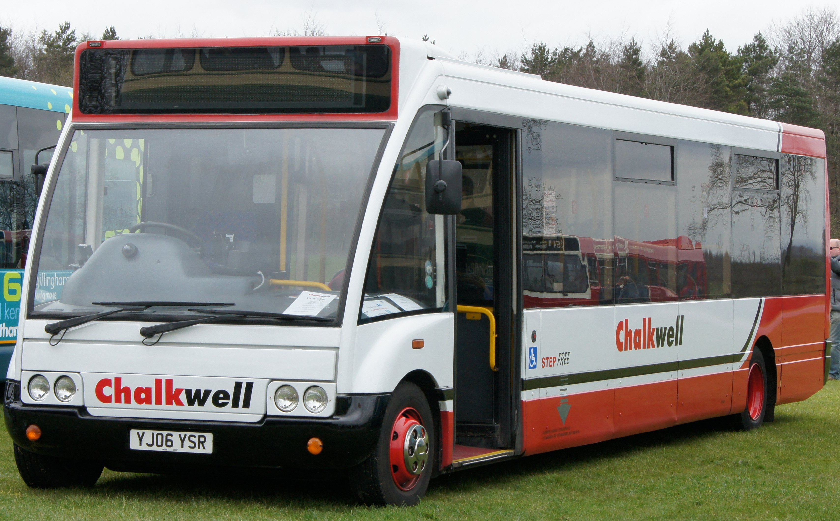 YJ06YSR-1 310312 CPS